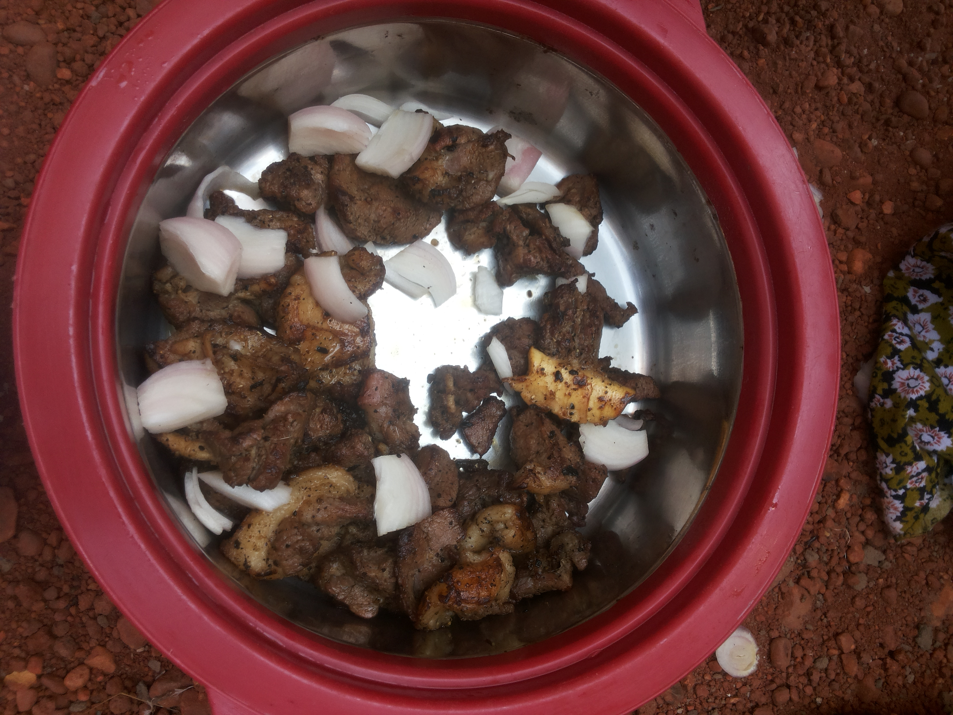 In sudan this nice This is an image of food from Sudan